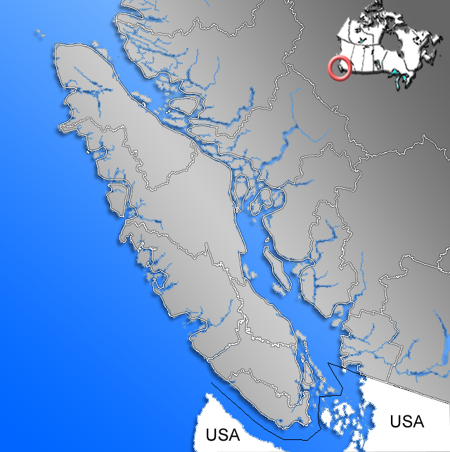 Contour of Vancouver Island with Regional Districts